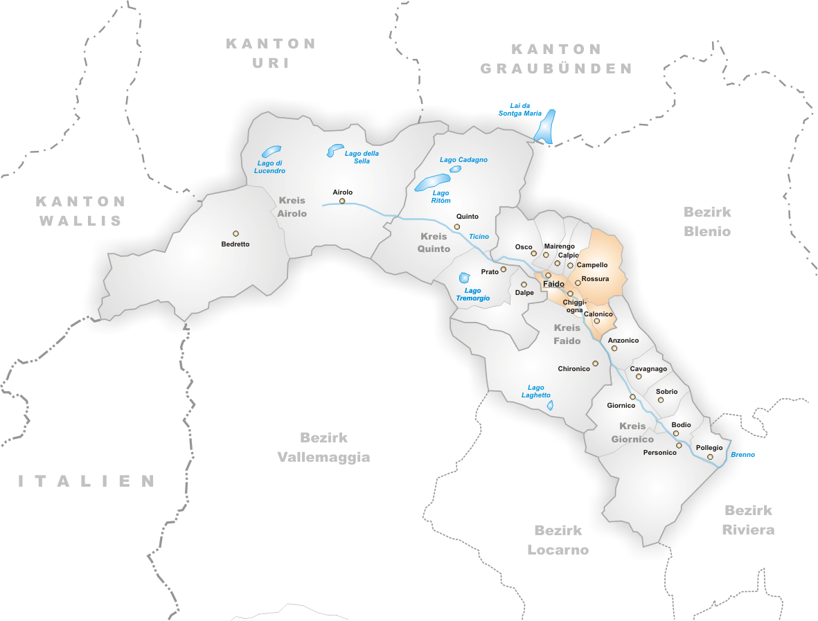 Municipalities of District Leventina until 2005